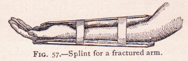 Fig 57 on Page 190. A broken arm in a splint Flickr data on 2011-08-17: Tags: public domain, copyright free, illustration, drawing, image, Points in Nursing, 1910, Emily A. M. Stoney License: CC BY 2.0 User: perpetualplum Sue Clark